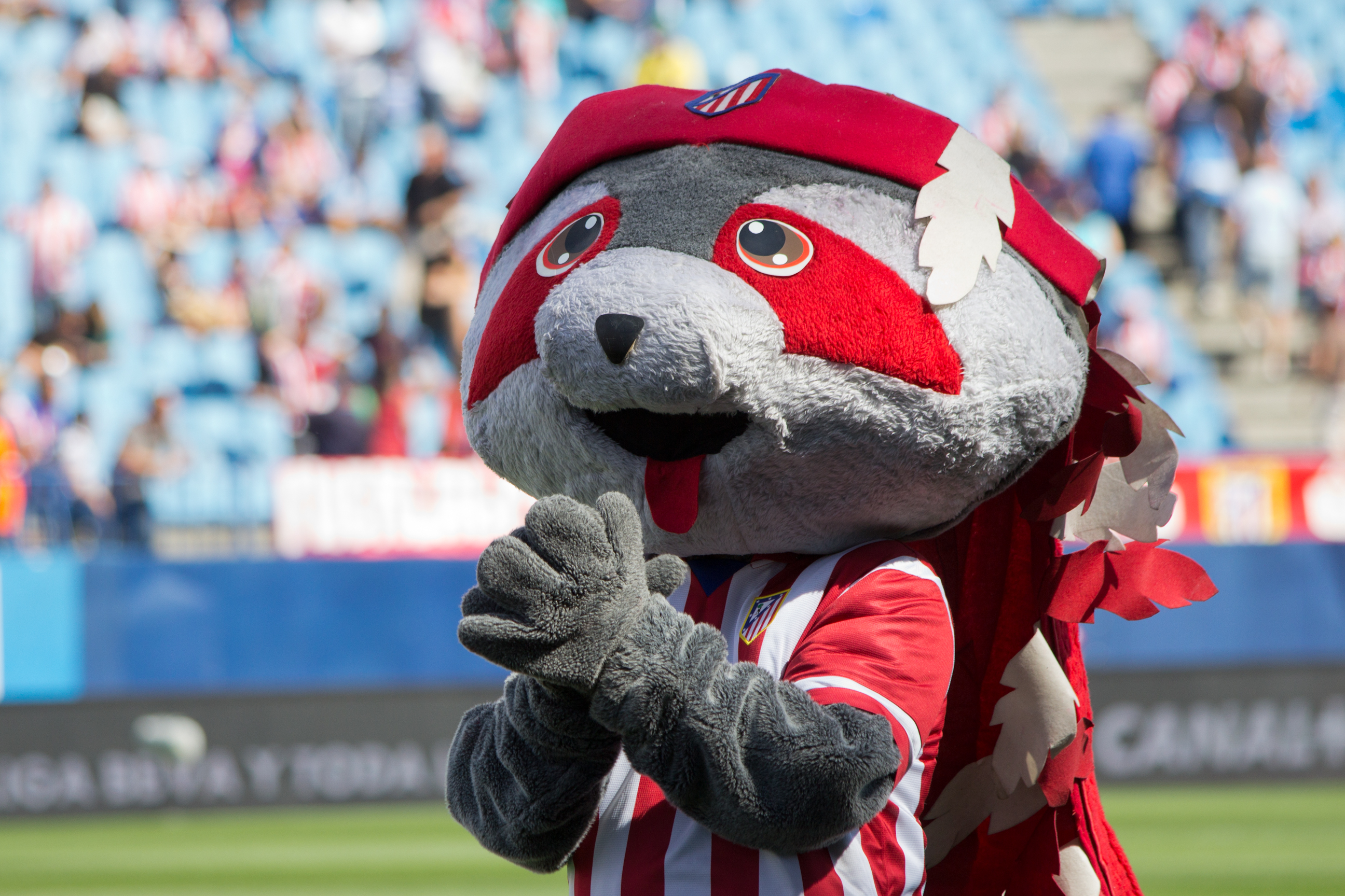 Indi, mascot of Club Atlético de Madrid.